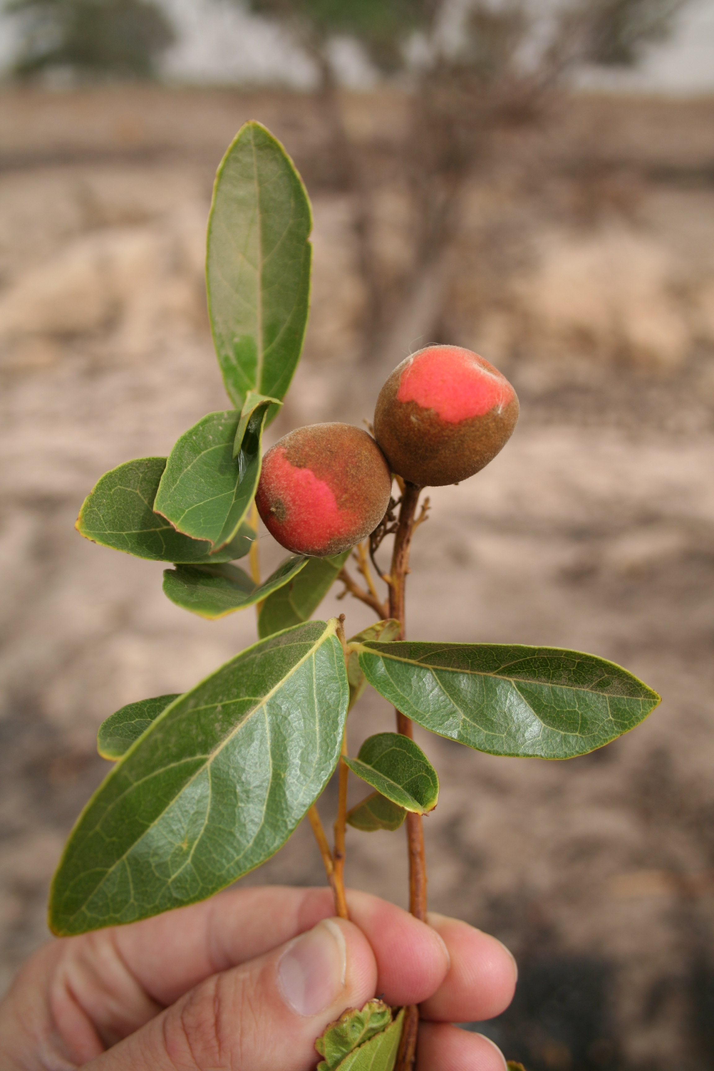 fruits of Icacina oliviformis (Icacinaceae, syn. Icacina senegalensis), near F.Cl. de Patako, Senegal